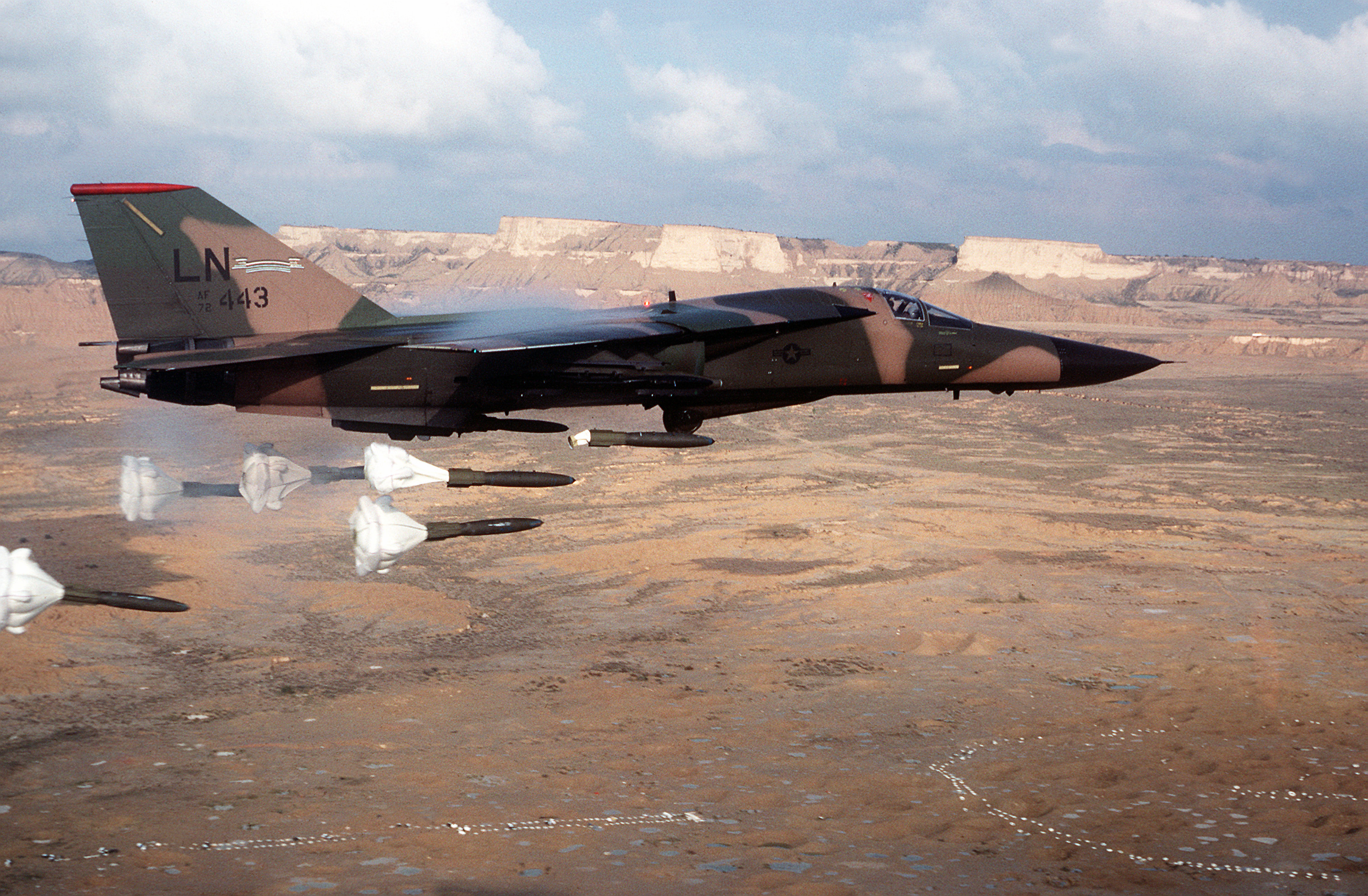 An air-to-air right side view of a 494th Tactical Fighter Squadron, 48th Tactical Fighter Wing F-111F aircraft releasing its load of Mark 82 high-drag bombs over the Bardenas Reales range. The 494th TFS has been deployed to Zaragoza Air Base for training.